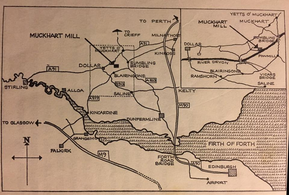 Muckhart Mill Holiday home Brochure page 4